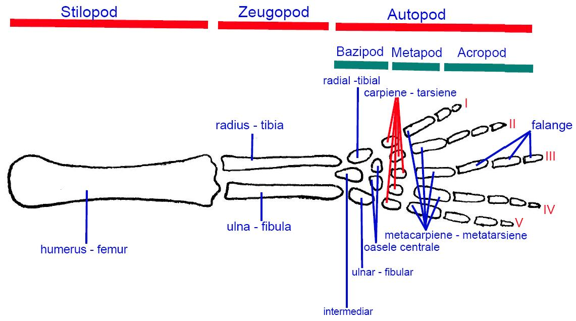 Tetrapod limb